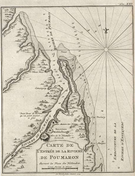 Map of the mouth of the Pomeroon River